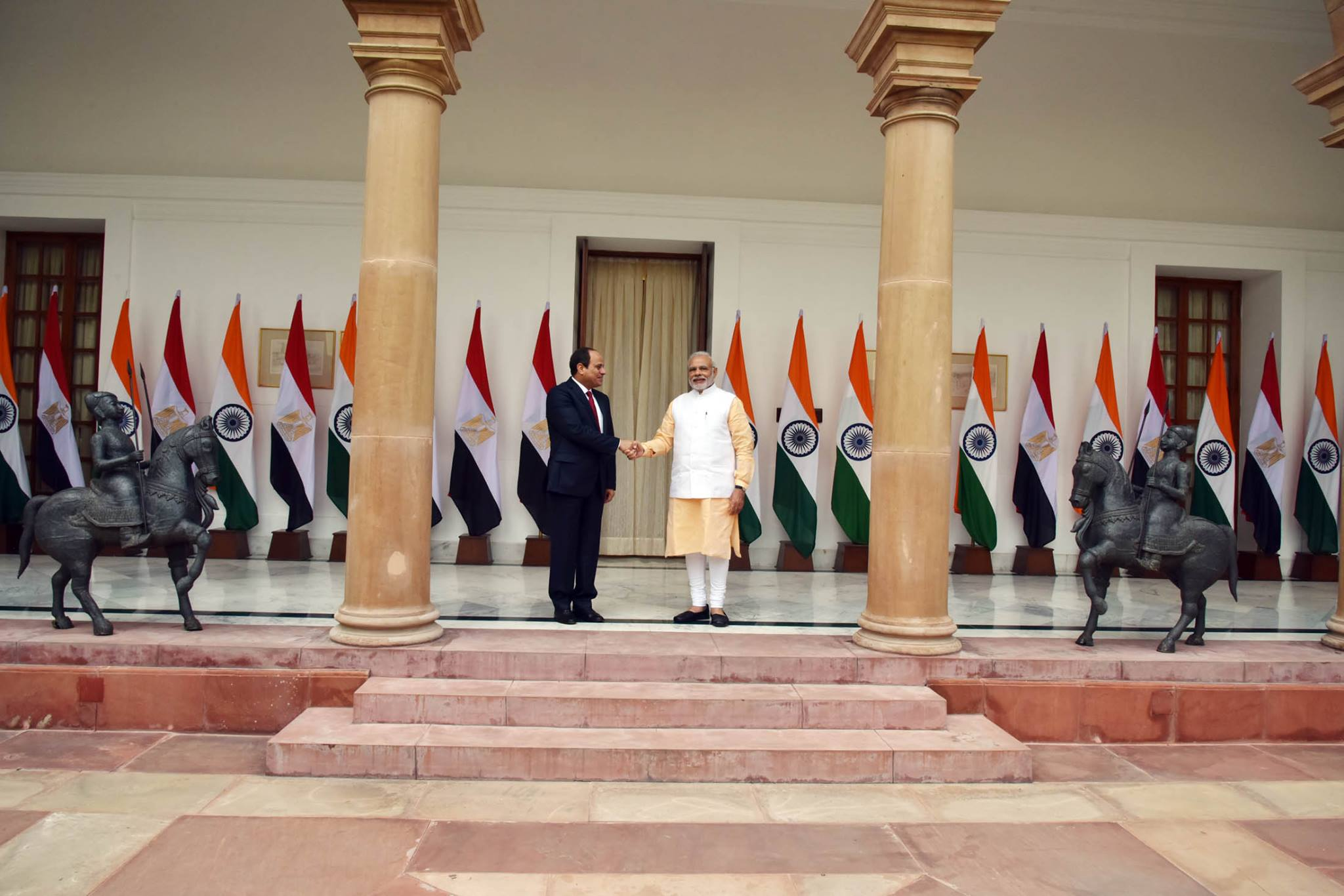 With President Abdel Fattah Al Sisi of Egypt.